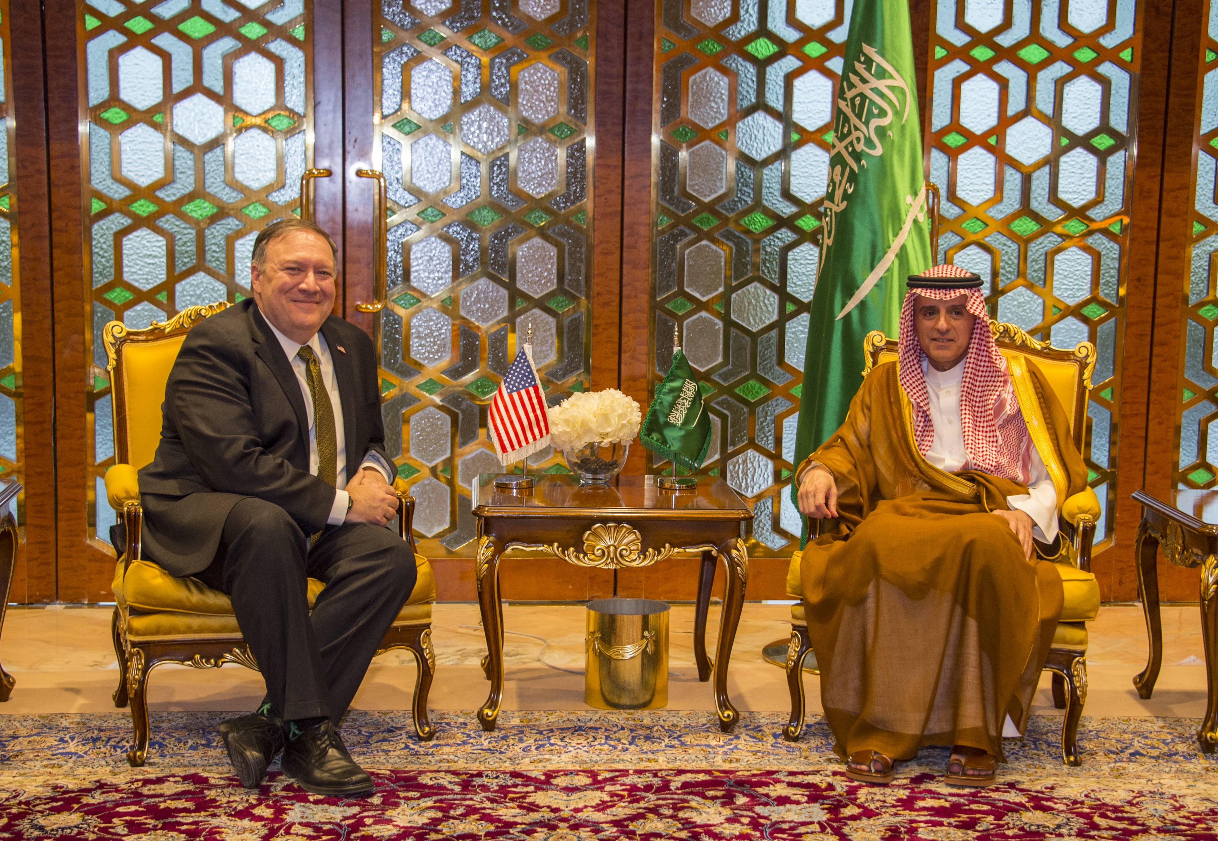 U.S. Secretary of State Mike Pompeo meets with Saudi Foreign Minister Adel al-Jubeir, in Riyadh, Saudi Arabia.